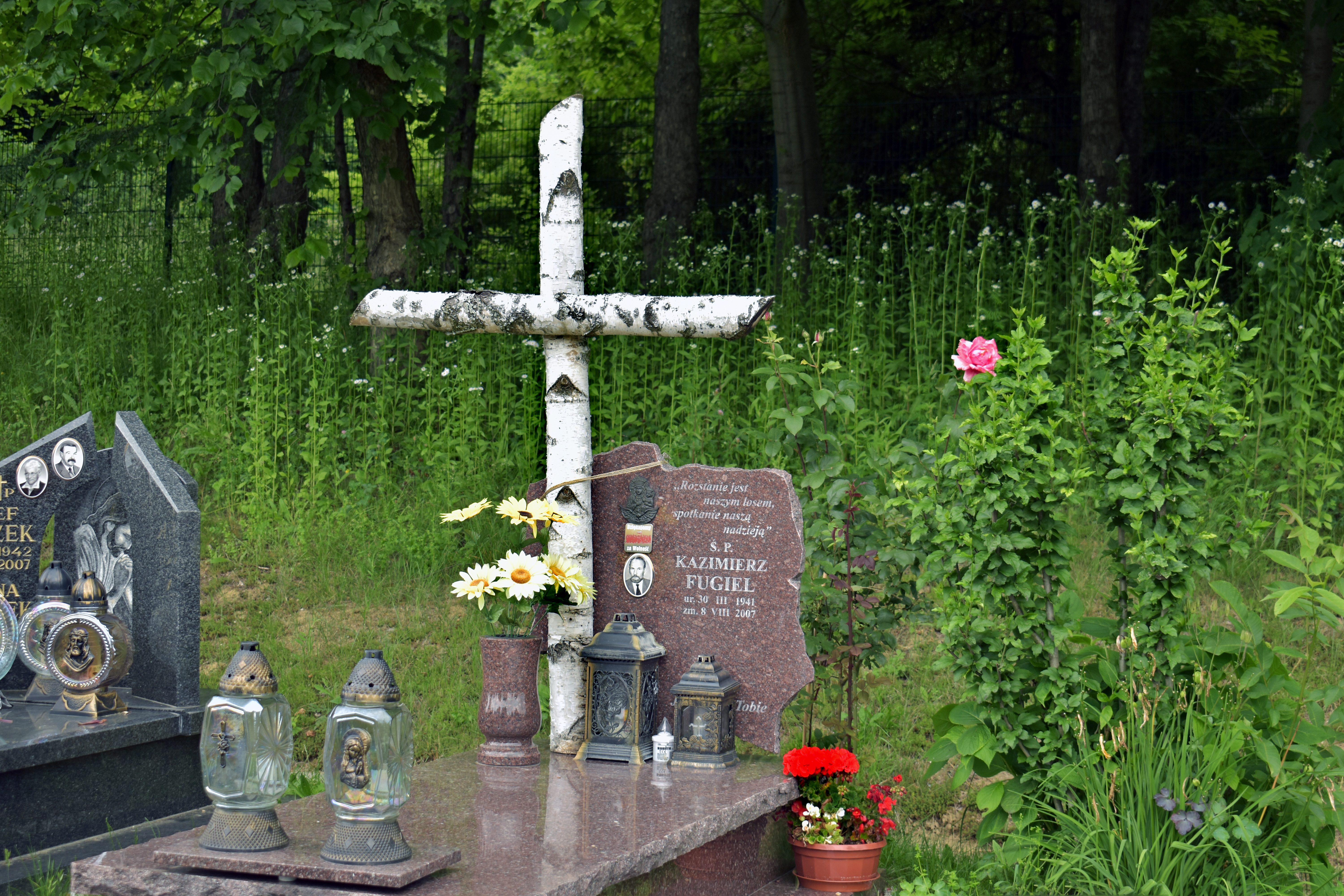 Grave of Kazimierz Fugiel, Grębałowski Cemetery, 1 Darwin street, Nowa Huta, Kraków, Poland